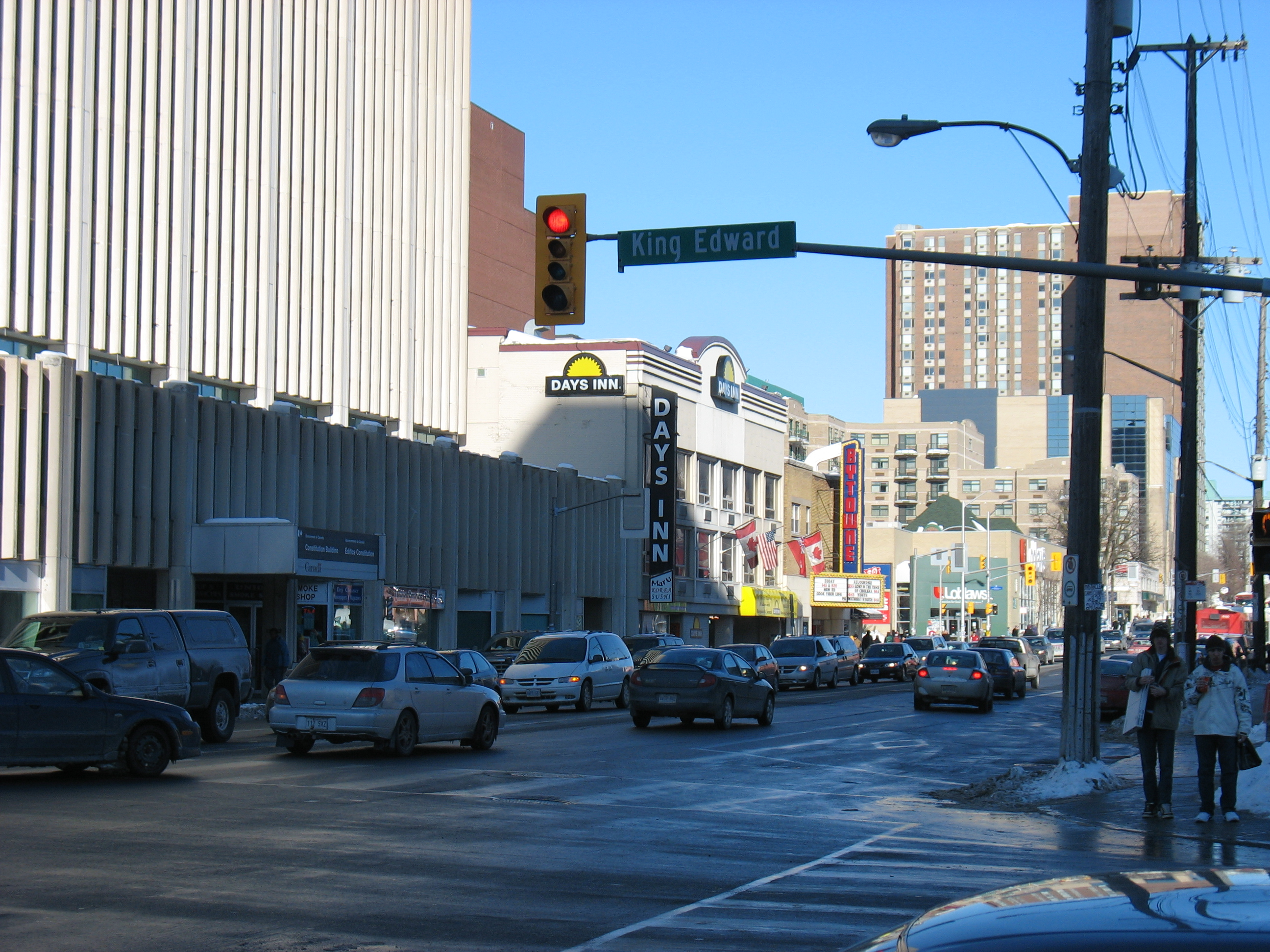 Corner of Rideau Street with King Edward (Ottawa)